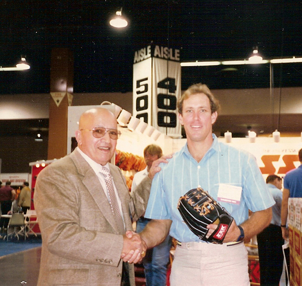 Charlie Rose (left) and Former MLB Player Alan Trammell. Photo Taken by Patrick McCann